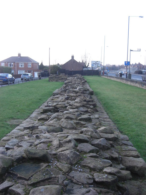 Hadrian's Wall - Denton Hall Turret